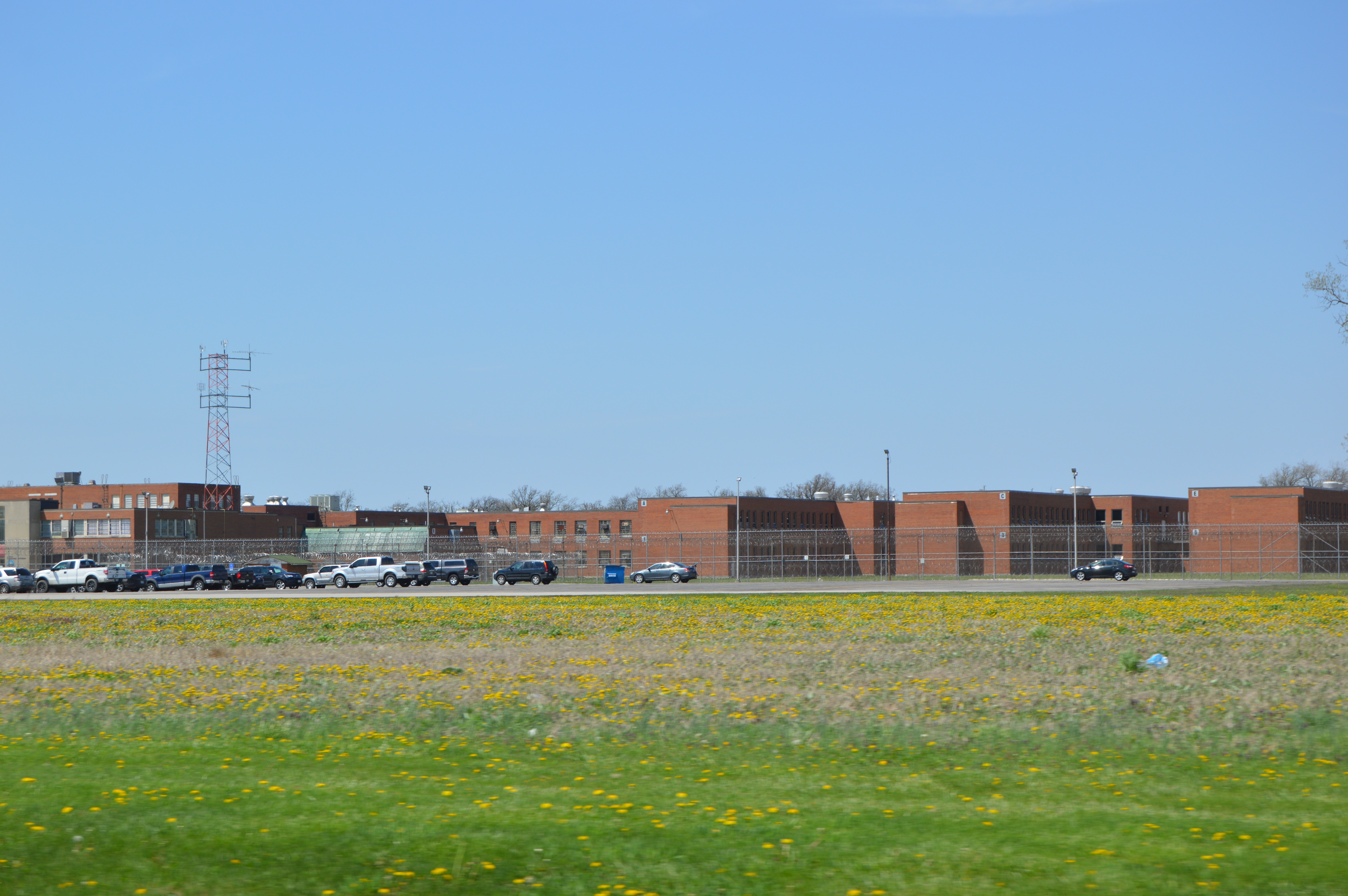 Buildings at the Marion Correctional Institution, located at 940 Marion-Williamsport Road in northern Marion, Ohio, United States. At the time this photo was taken, the prison was receiving unusual attention, as it had experienced one of the worst localized outbreaks of COVID-19 in the United States.